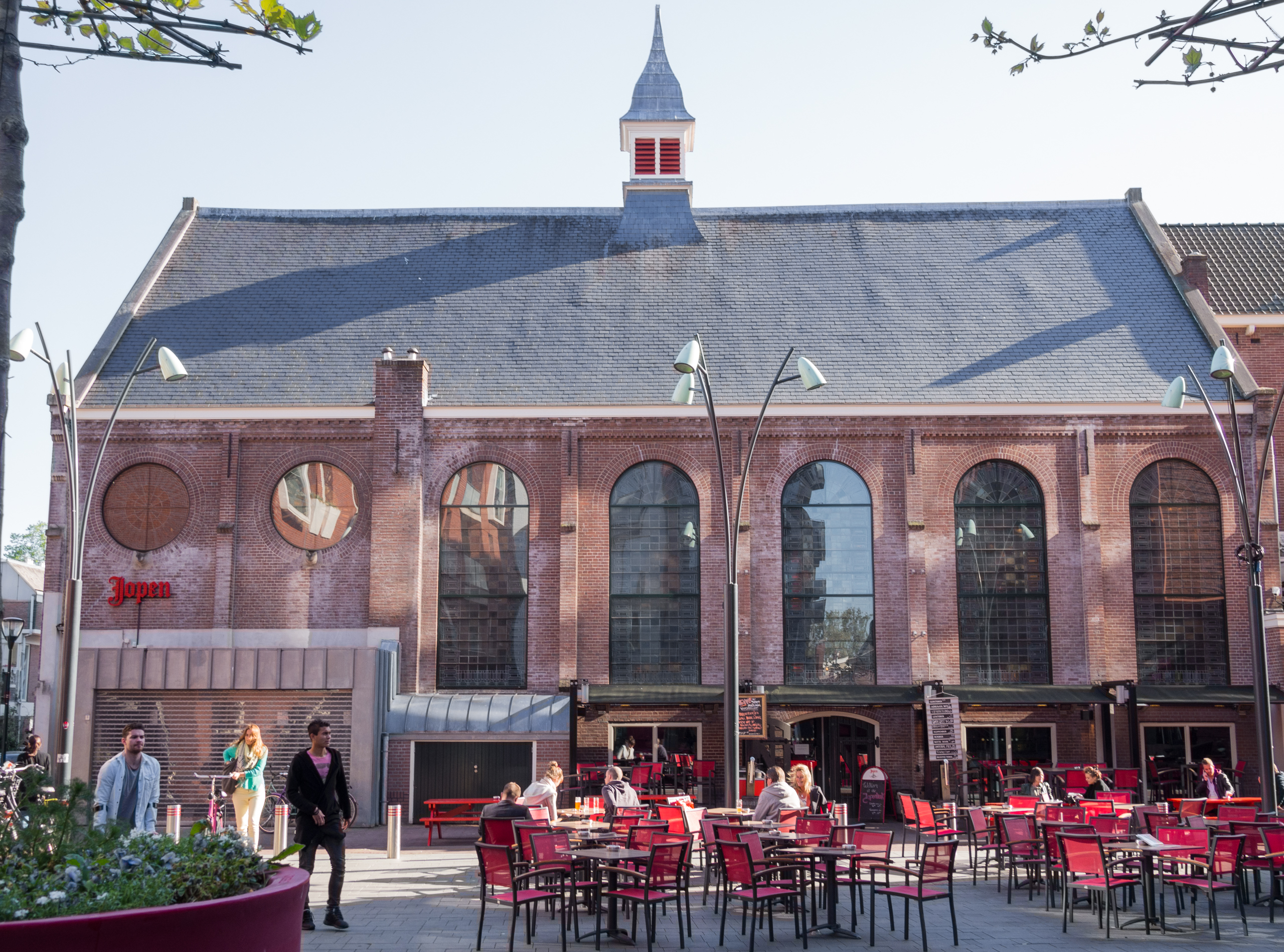 The Vestekerk/Jacobskerk from 1910 in Haarlem was renovated to house the Jopen brewery, bar, and restaurant.